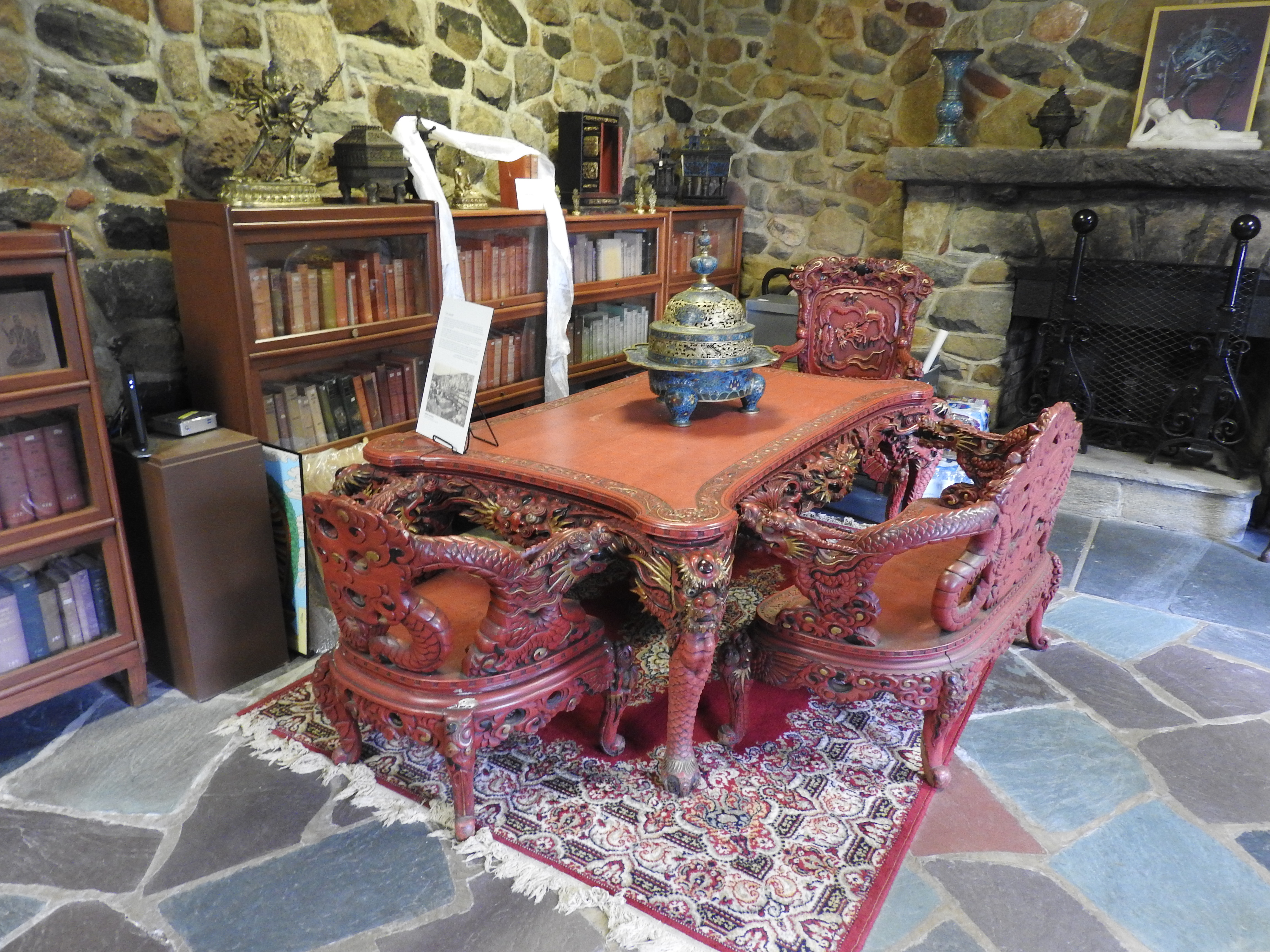 Looking northeast at ornate table in the museum office